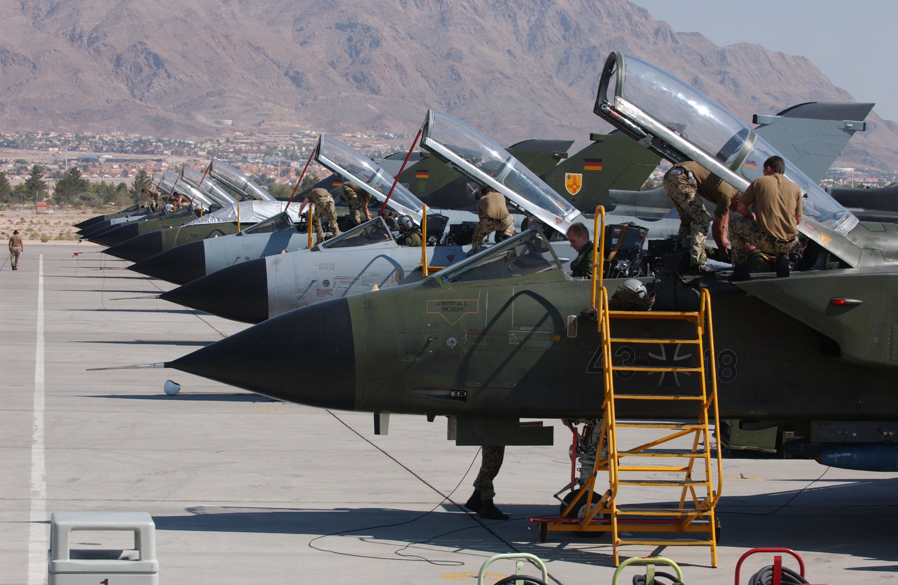 German Luftwaffe (Air Force) crew chiefs work on Panavia Tornado IDS aircraft during the "Red Flag 07-3" exercise at Nellis Air Force Base, Nevada (USA), on 21 August 2007. The Tornado fighters belonged to the Jagdbombergeschwader 31 (JaboG 31) "Boelcke" (31st Fighter-Bomber Wing) from Noervenich AB, Northrhine-Westphalia, Germany (blue emblem on the tail fin), and the German Air Force Flying Training Center (GAF/FTC) at Holloman AFB, New Mexico (yellow emblem).